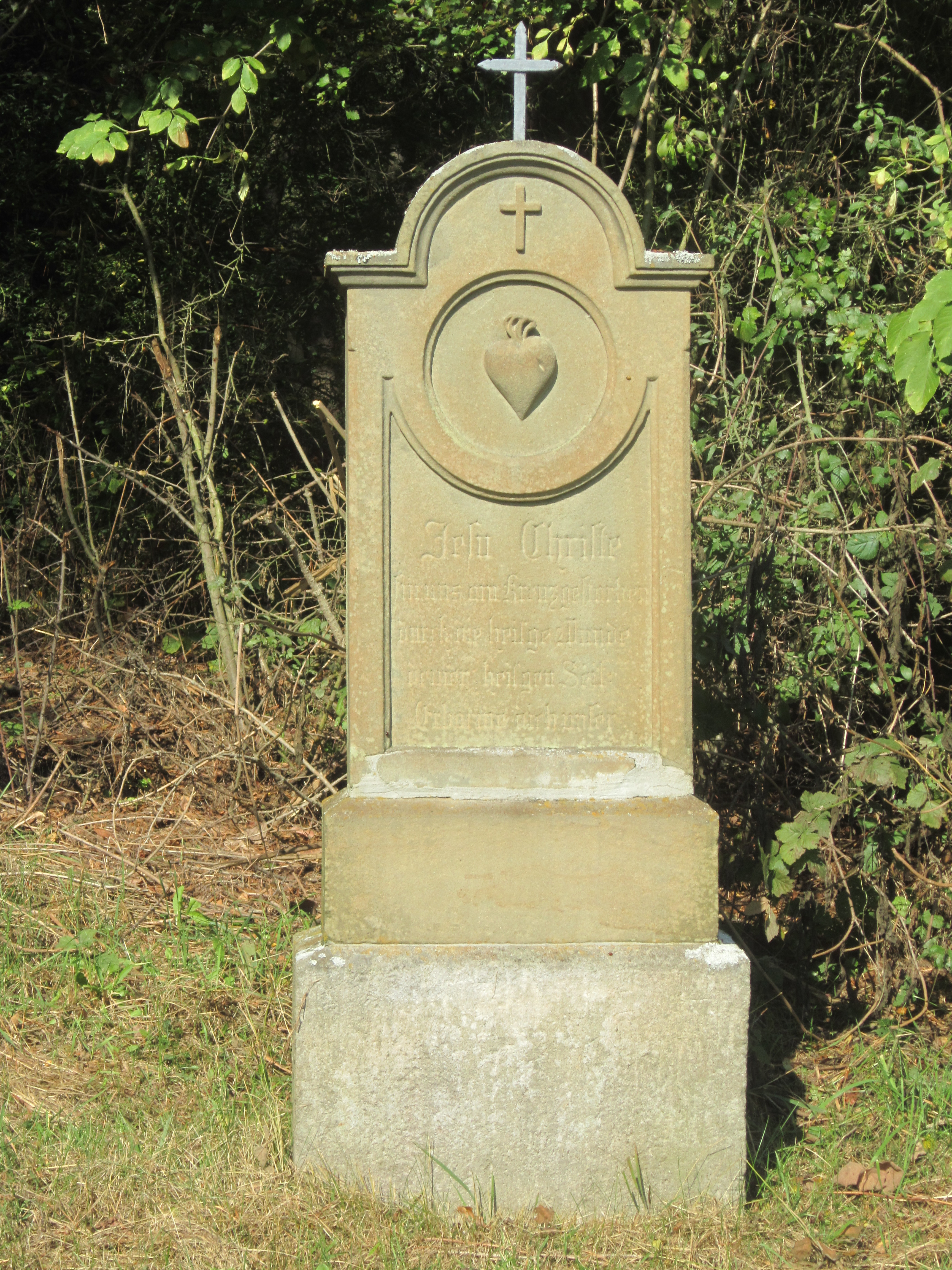 5th station of the Five Wounds in Zahlbach, a quarter of the German town of Burkardroth in Lower Franconia (Bavaria).